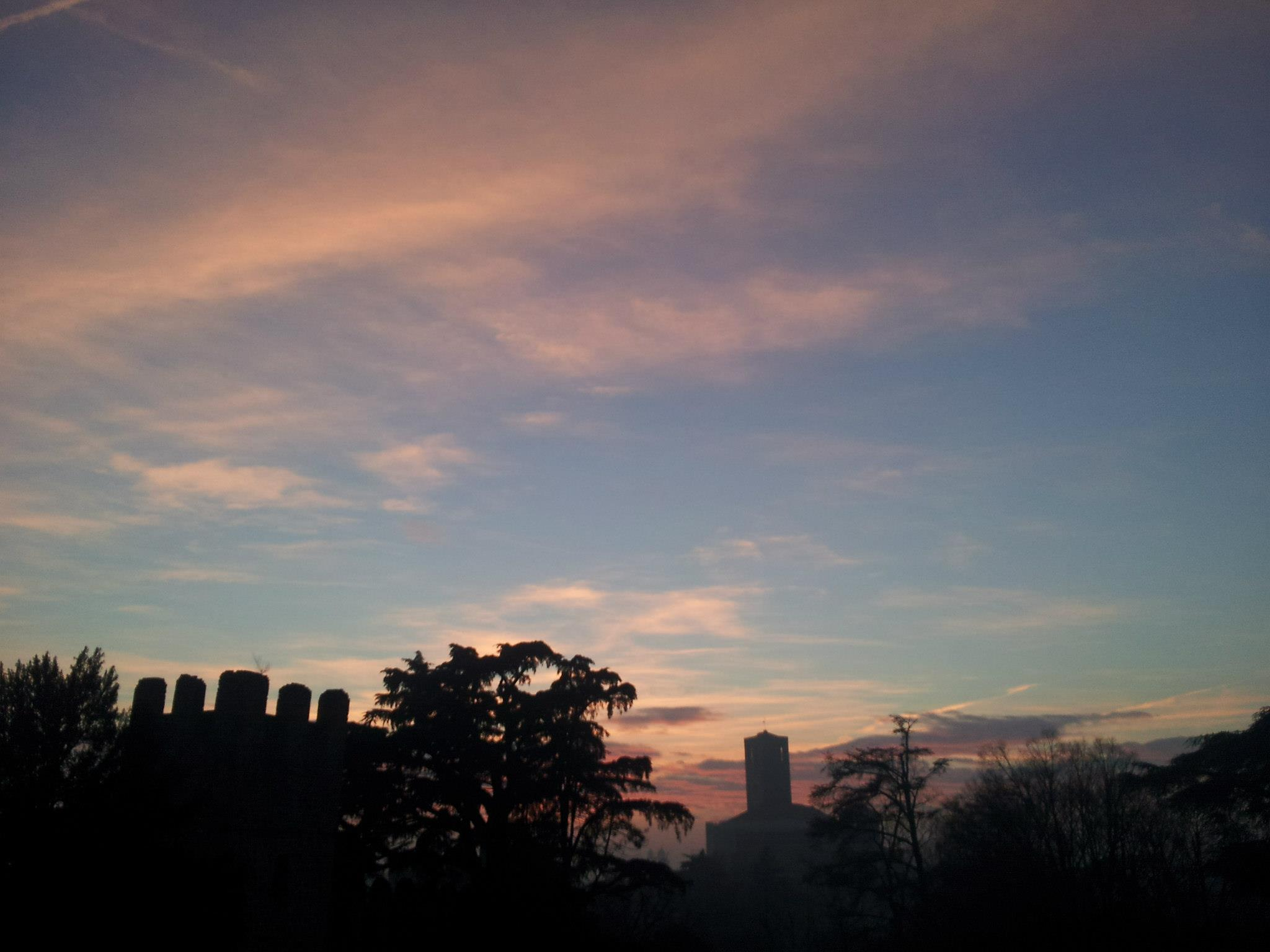 Sunset